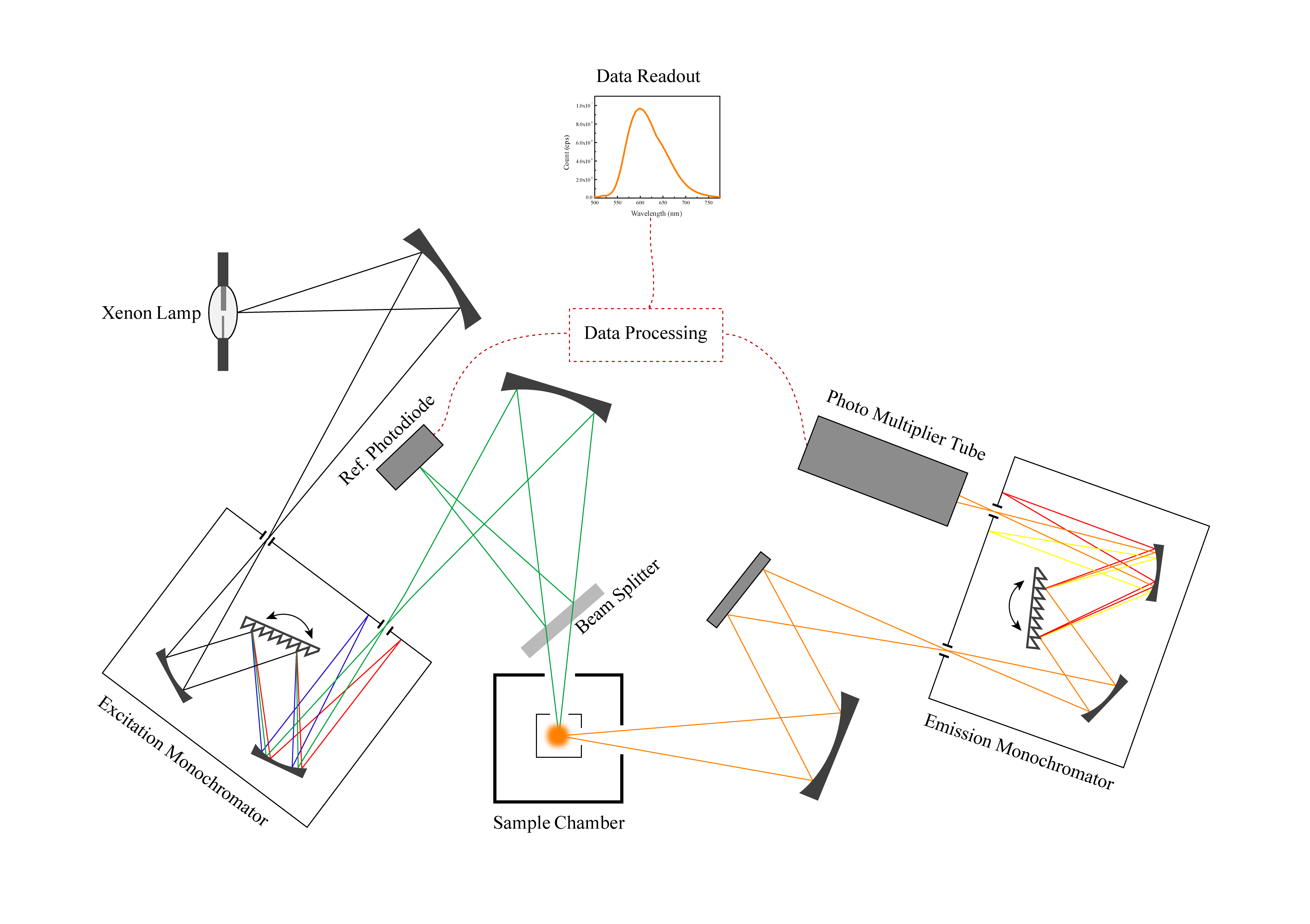 Layout of a fluorescence spectrophotometer (Fluoromax) manufactured by Horiba.